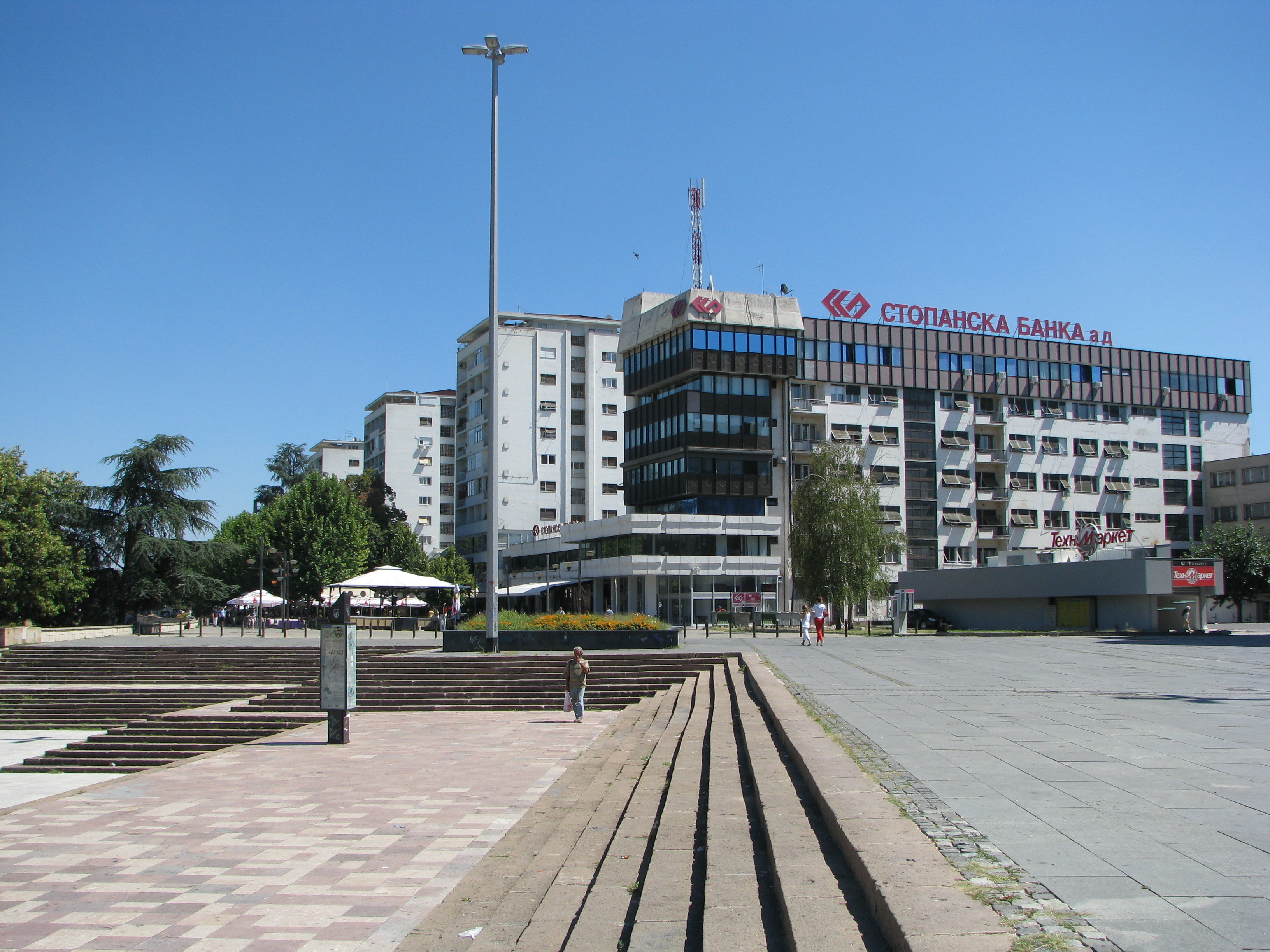 Quay 13 November in Skopje, Macedonia